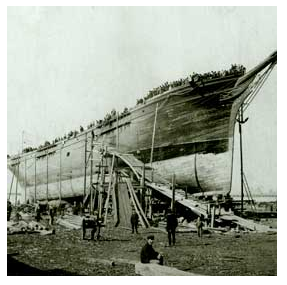 Glory of the Seas; ship built by Donald McKay in Boston. McKay appears at the center of the photograph wearing a top hat. Finamore, Daniel. Capturing Poseidon: Photographic Encounters with the Sea. Salem, Mass: Peabody Essex Museum. pg. 36. Peabody Essex Museum Native namePeabody Essex Museum originally the Peabody Museum of Salem and the Essex InstituteLocationSalem, United States of AmericaCoordinates42° 31′ 20″ N, 70° 53′ 33″ W Established1992Web page control : Q3373790 VIAF: 131169052 ISNI: 0000 0004 0460 4557 ULAN: 500308458 LCCN: n80003965 GND: 1007735-2 WorldCat institution QS:P195,Q3373790